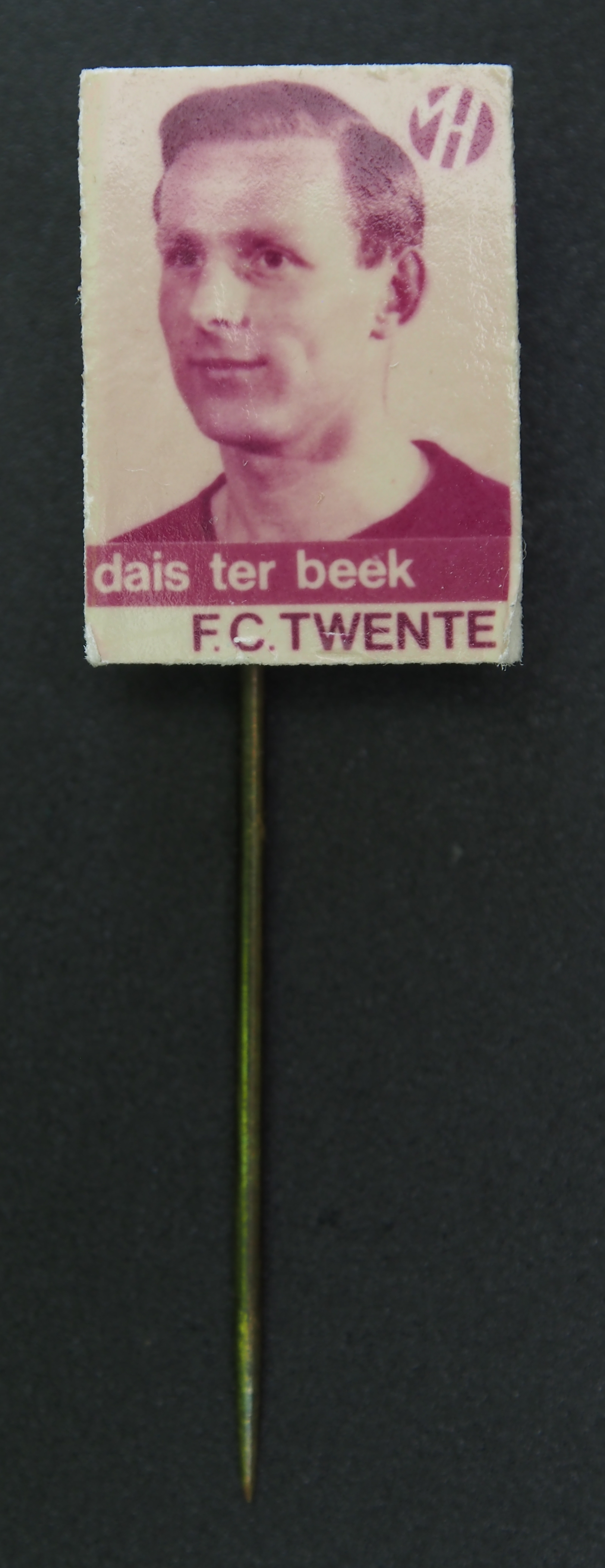 Advertising pin of an old (Dutch) product or brand.